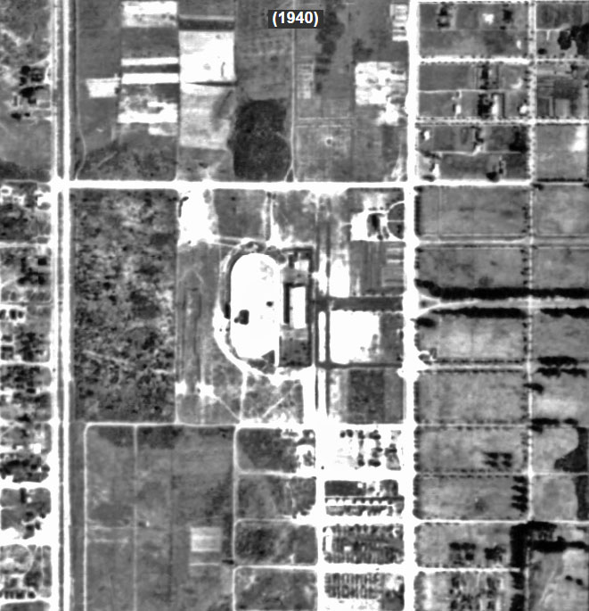 Aerial Photograph of Hollywood Grayhound in 1940